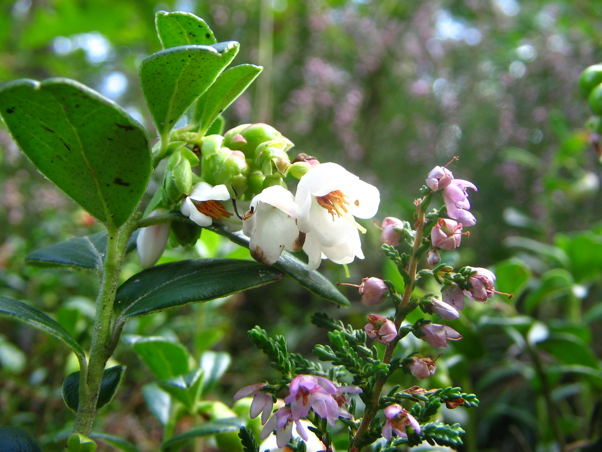 Vaccinium vitis-idaea Photo taken in National Park Sallandse Heuvelrug (Netherlands), September 18 2005.